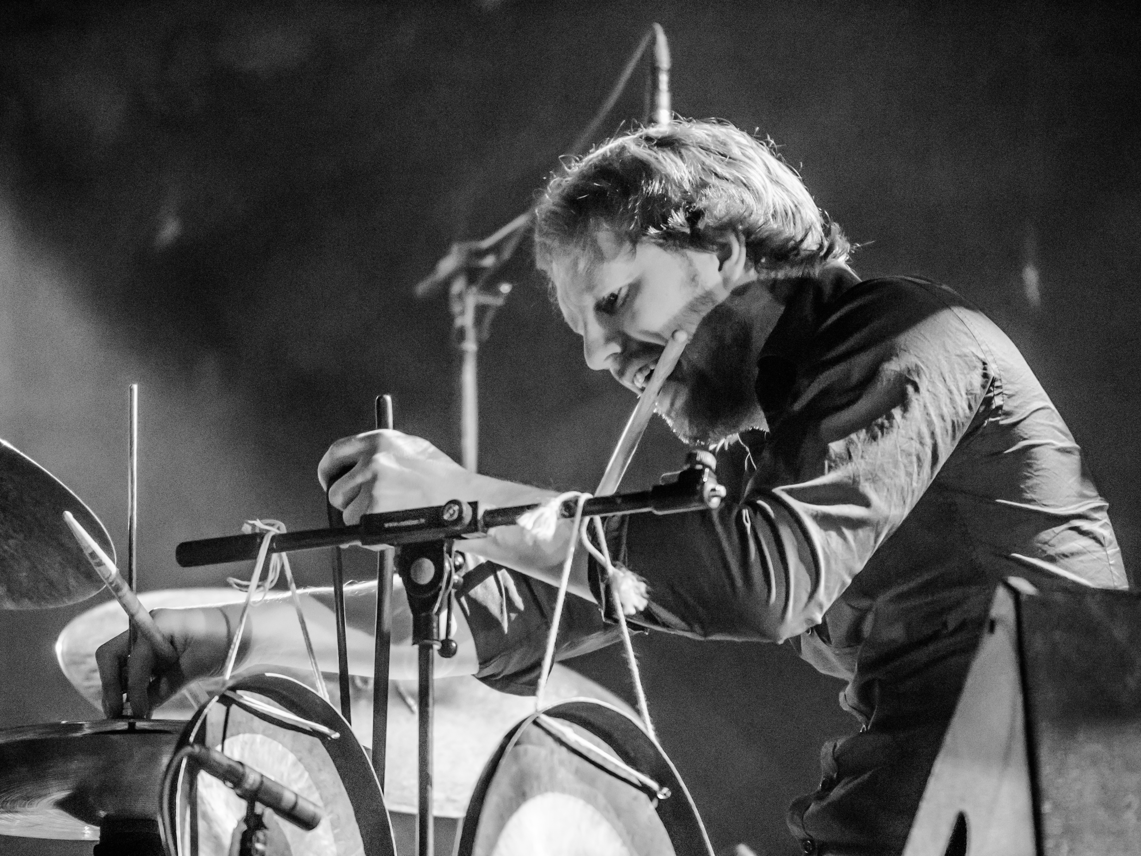 Norwegian jazz drummer Gard Nilssen at the Moers Festival 2015